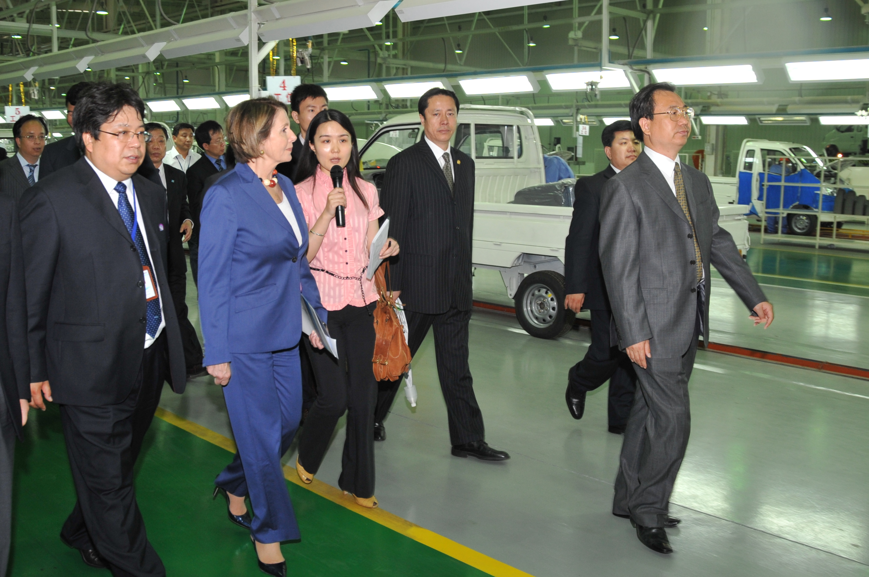 佩洛西访问天津清源电动车辆有限责任公司工厂; Nancy Pelosi visiting Tianjin Qingyuan Electric Vehicle Co Ltd, Tianjin, China